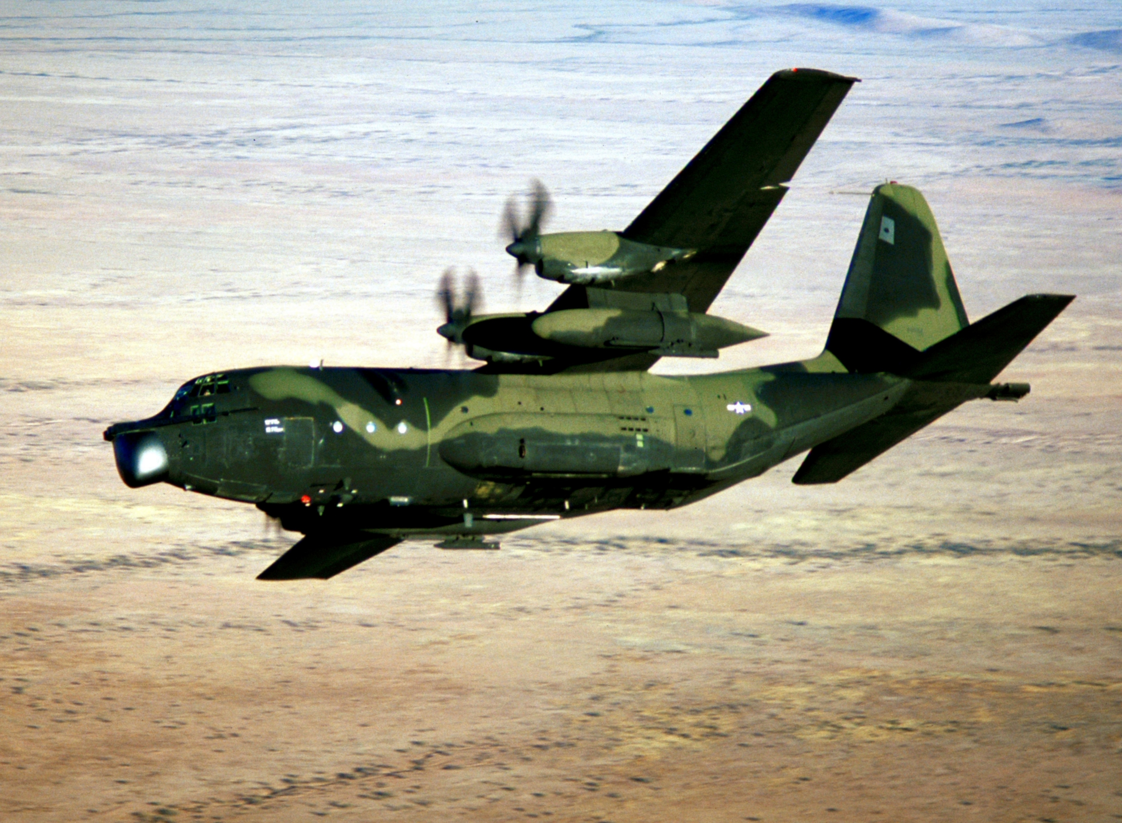 A U.S. Air Force Lockheed MC-130E Combat Talon I aircraft banking to the right while flying low-level maneuvers over the Arizona desert near Davis-Monthan Air Force Base in 1980. The aircraft was assigned to the 8th Special Operations Squadron at Hurlburt Field, Florida (USA).